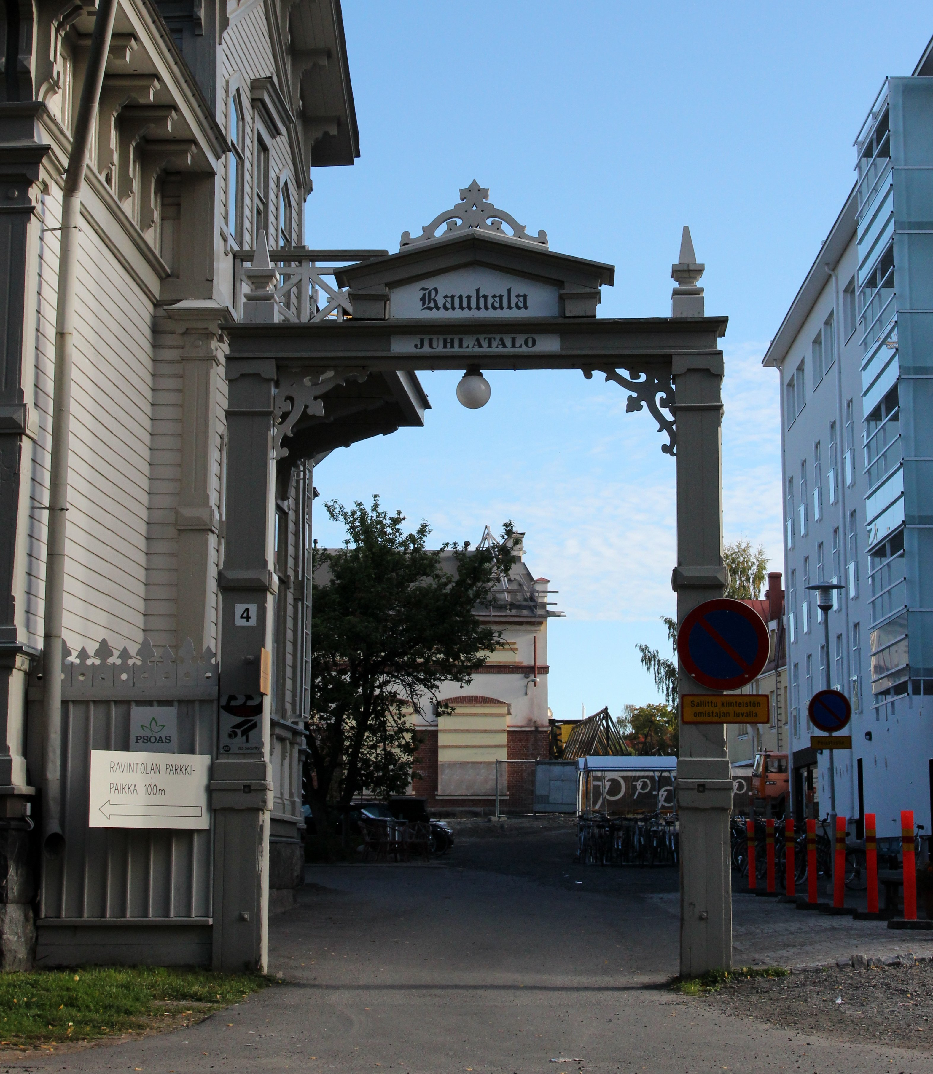 Gate to restaurant Rauhala in Oulu.